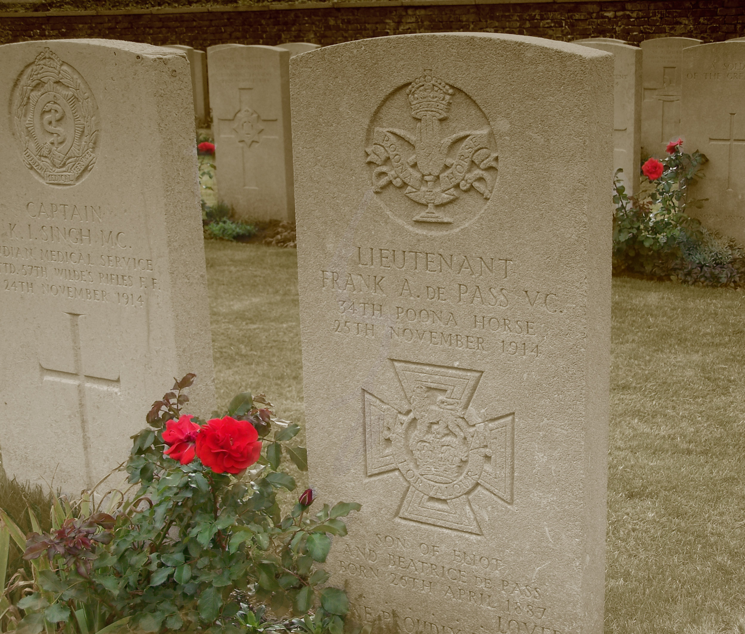 Headstone of Lt Frank de Pass, Bethune Cemetery, France